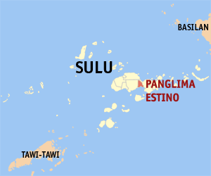 Map of the Sulu showing the location of Panglima Estino